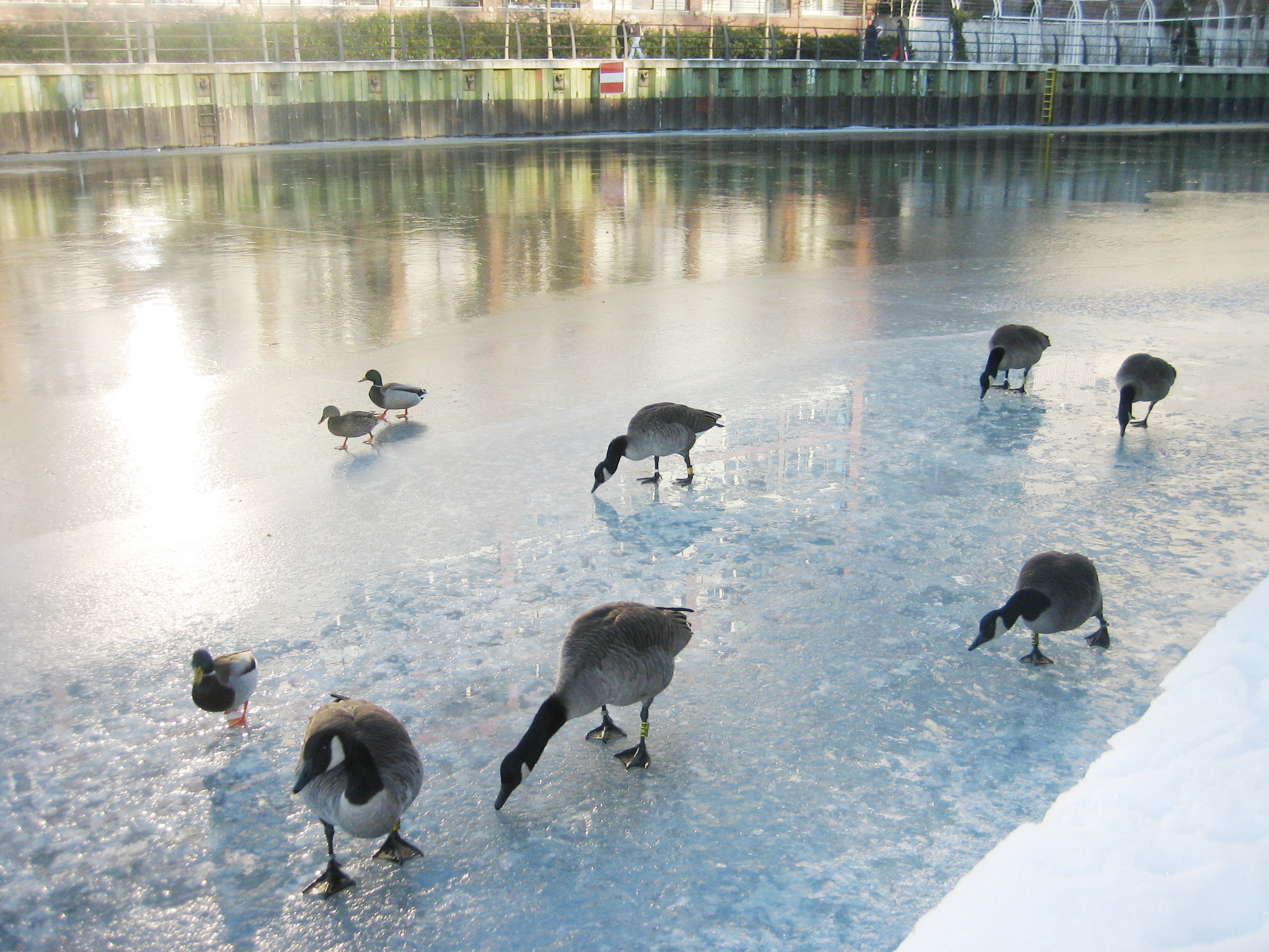 Flock of Canada geese on frozen Spree river in Berlin. The flock included about 12 individuals.